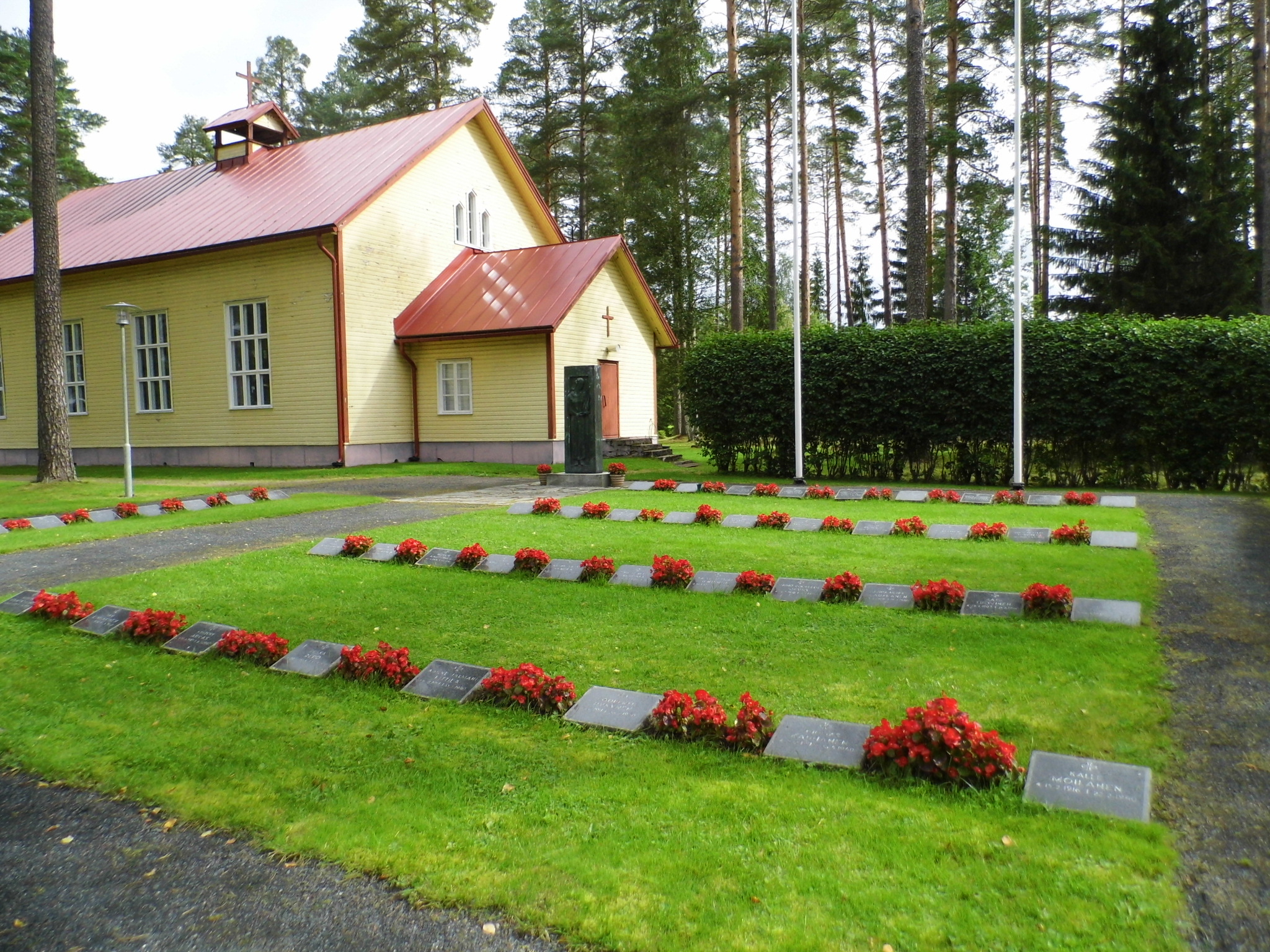 Military cemetary at church in Sukeva, Finland